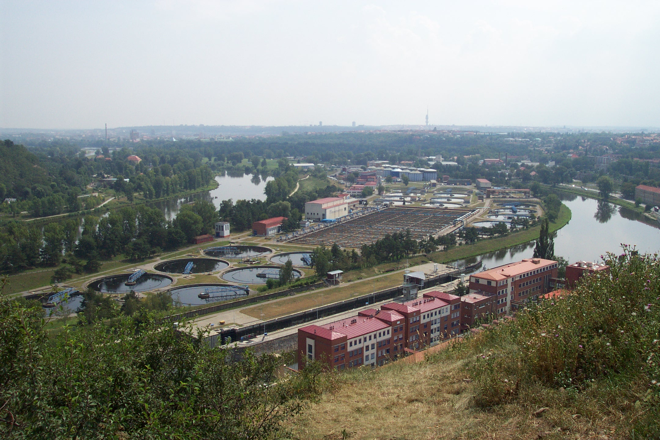 A wiev on water treatment plant from Baba (Prague, CZ)help